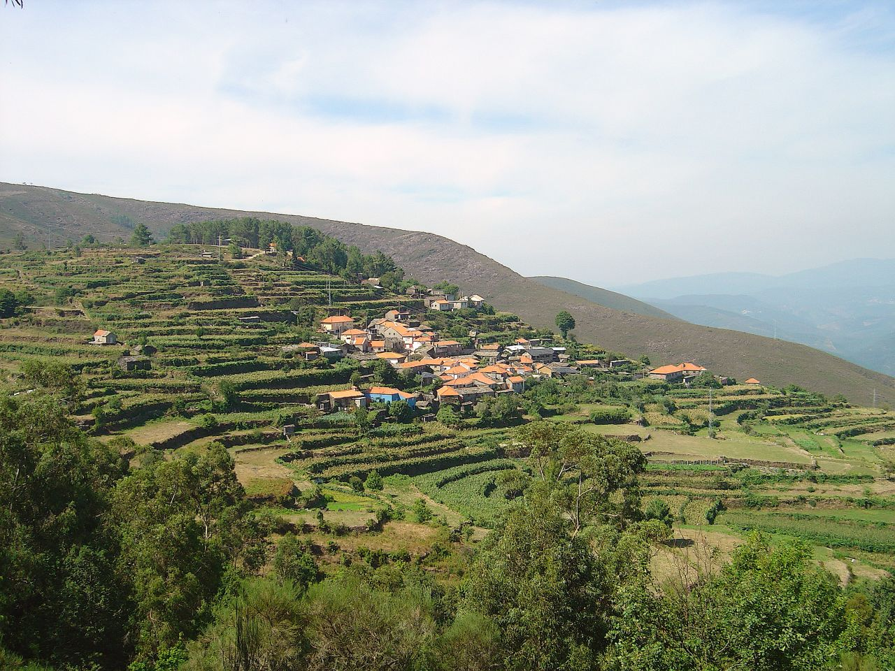 See where this picture was taken. [?]